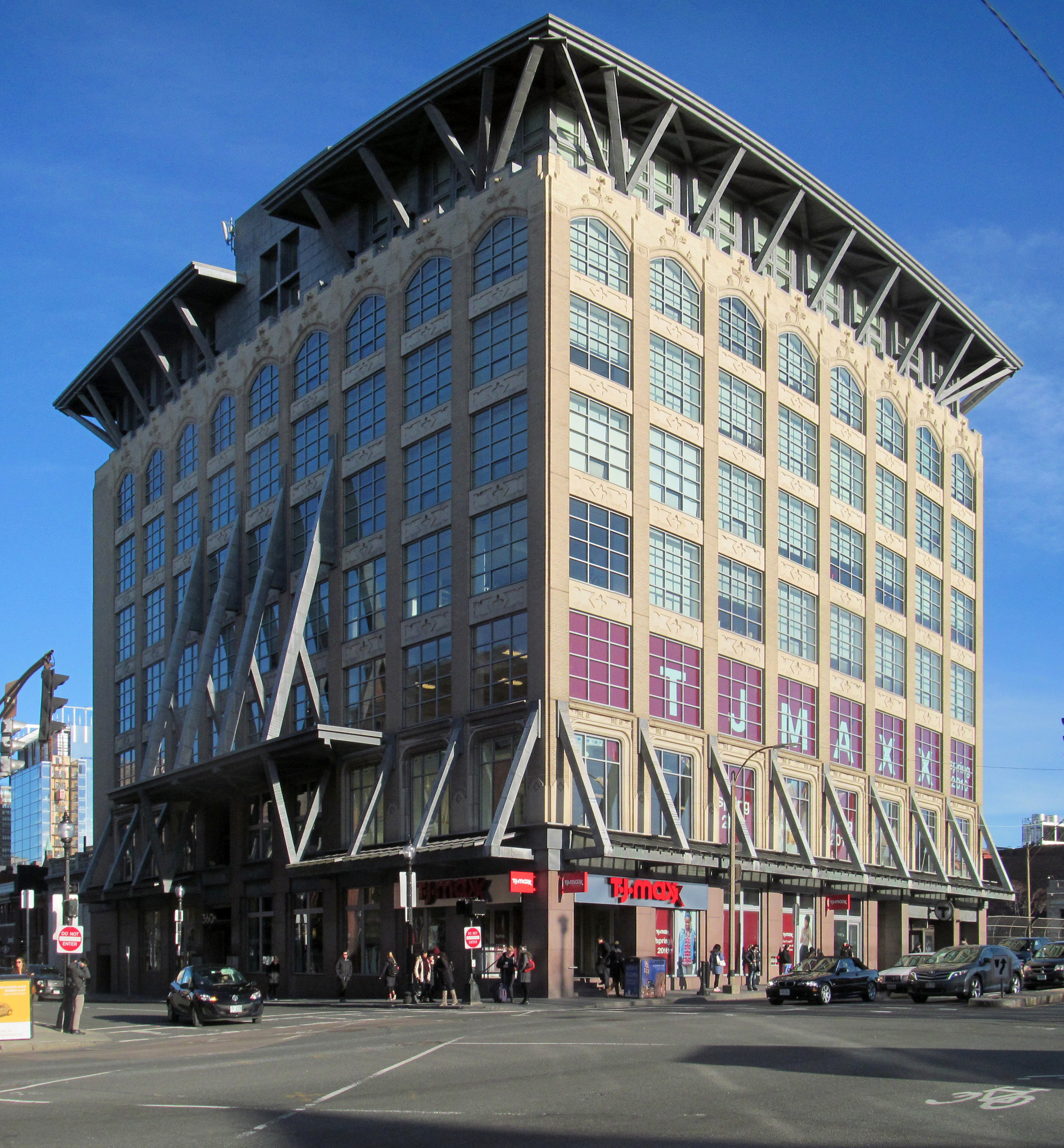 360 Newbury Street in March 2016